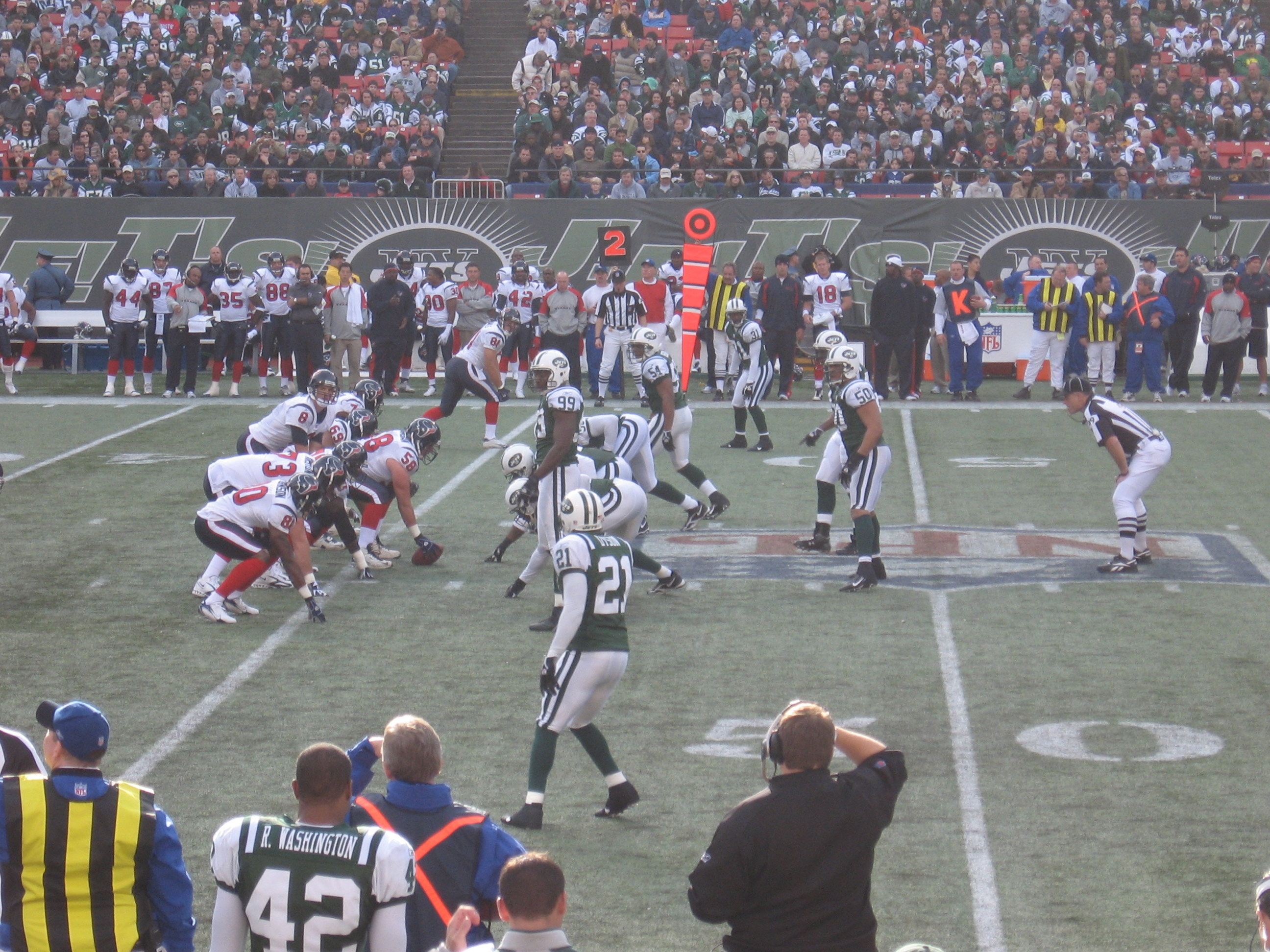 Taken by User:Anskykids on November 26, 2006 at Giants Stadium - New York Jets vs. Houston Texans.